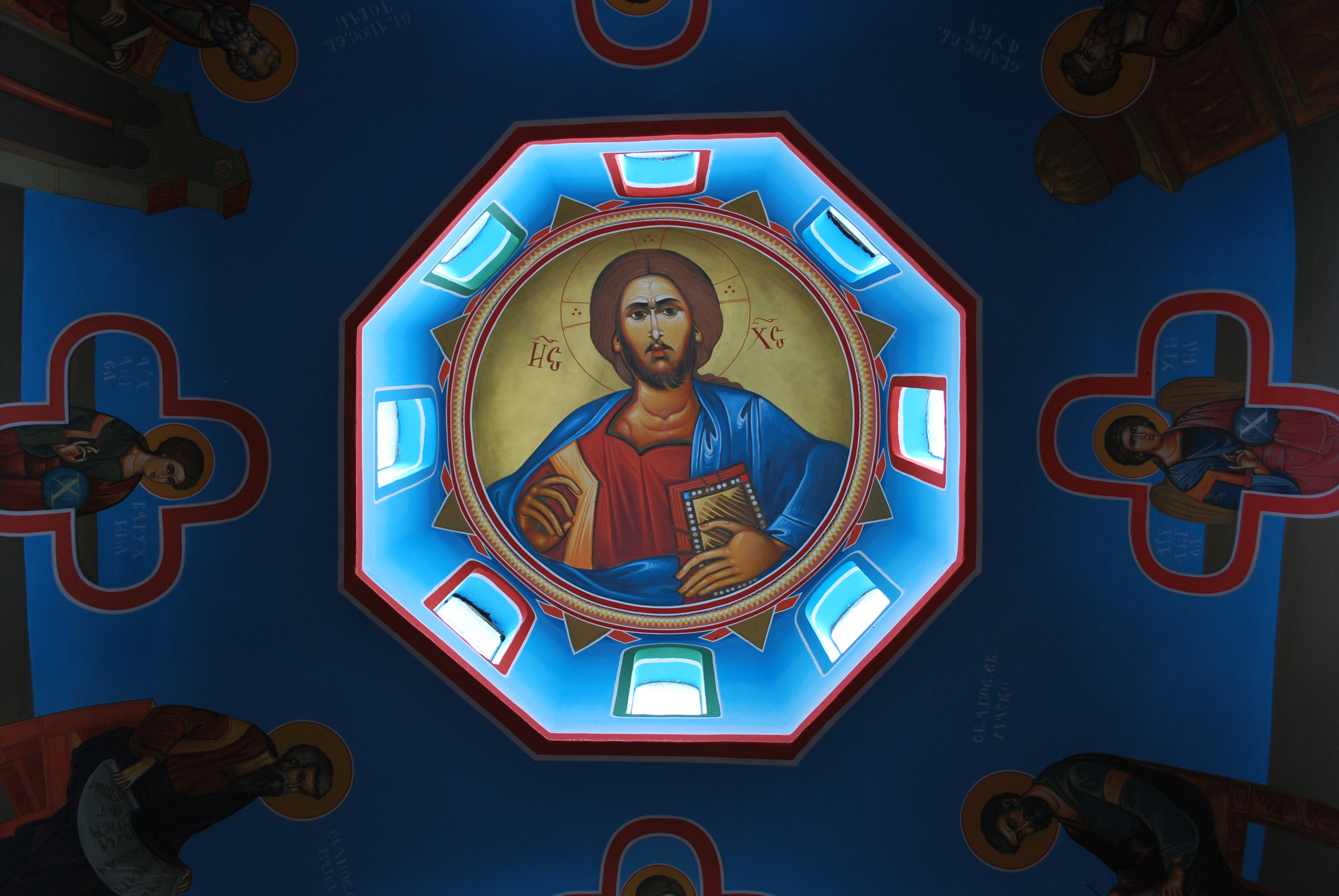 St. Paul Church in Park Ginovci near Kriva Palanka, Macedonia